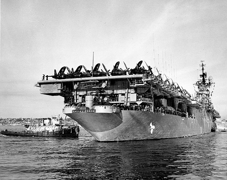 USS Valley Forge (CV-45) leaves San Diego, California, 6 December 1950, to return to the Korean War zone for her second tour of combat duty, following a quick replenishment visit to the U.S. west coast. Acoma (YTB-701) is assisting, from off the carrier's port quarter.